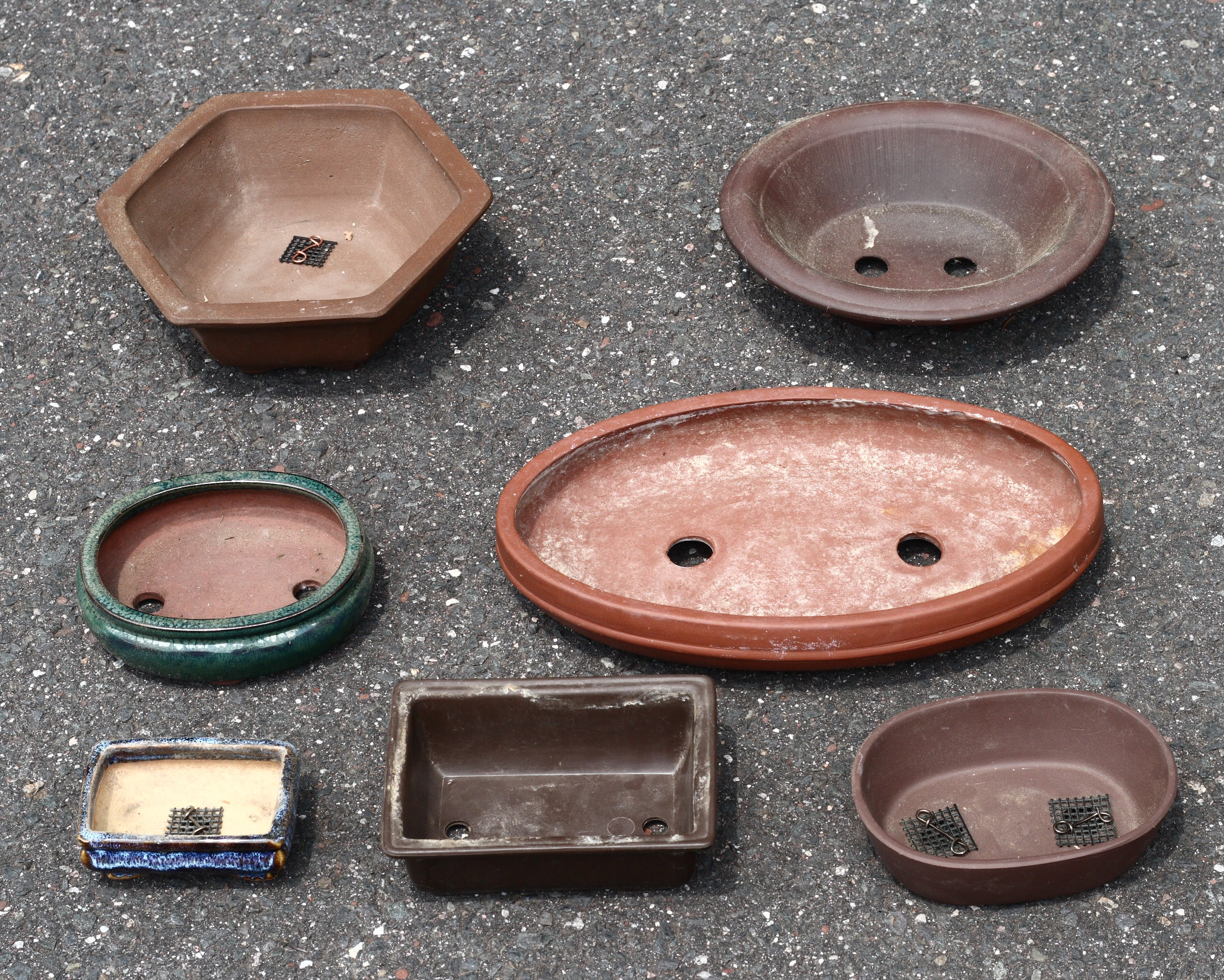 Seven different mass-produced bonsai pots. Two pots are glazed (middle-left and bottom-left), one pot (bottom-center) is a mica training pot, and three pots have plastic mesh fastened with wire over the drainage holes (top-left, bottom-left, and bottom-right).